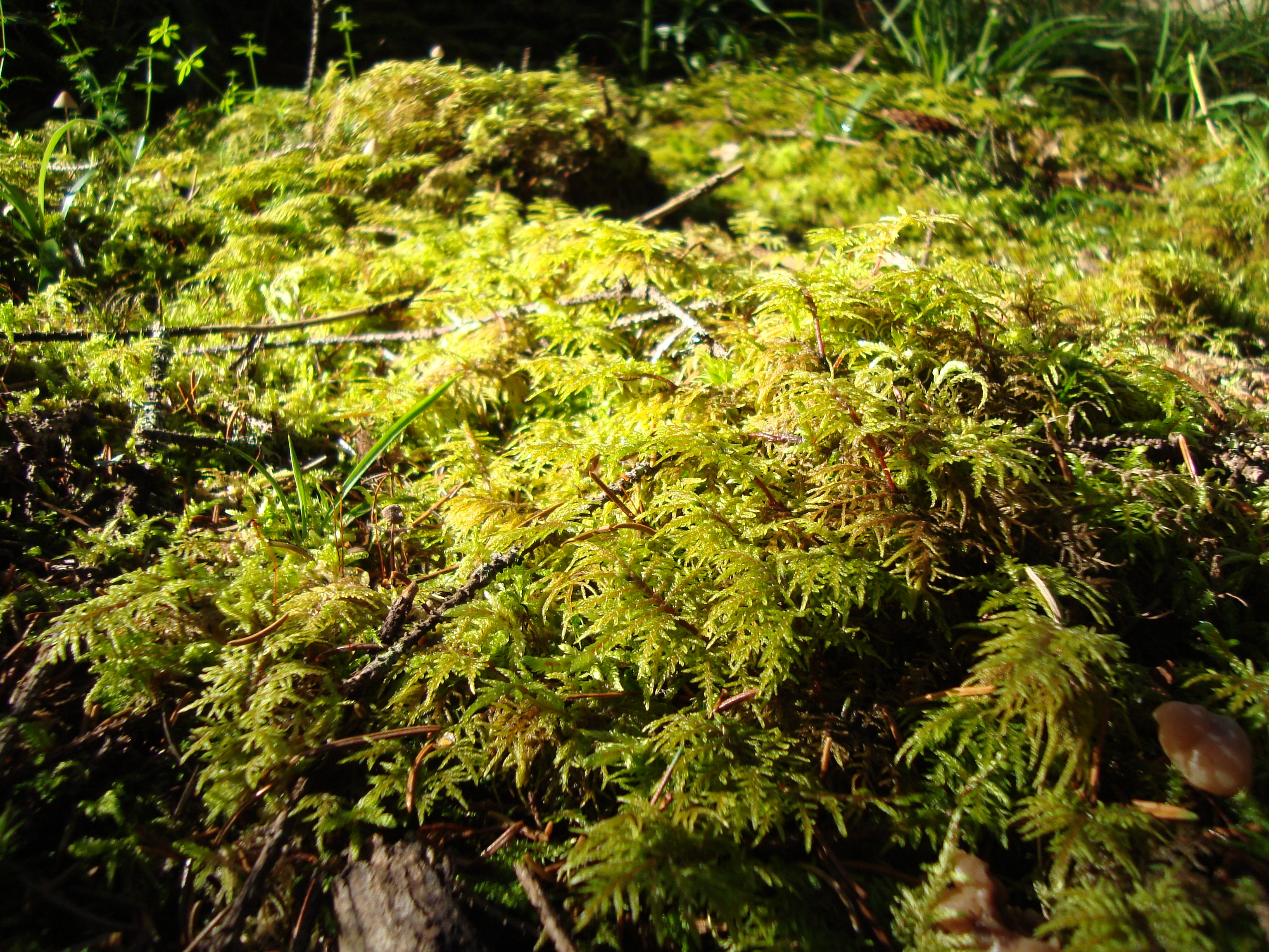 Hylocomium splendens, in the background also pretty much Pleurozium schreberi.